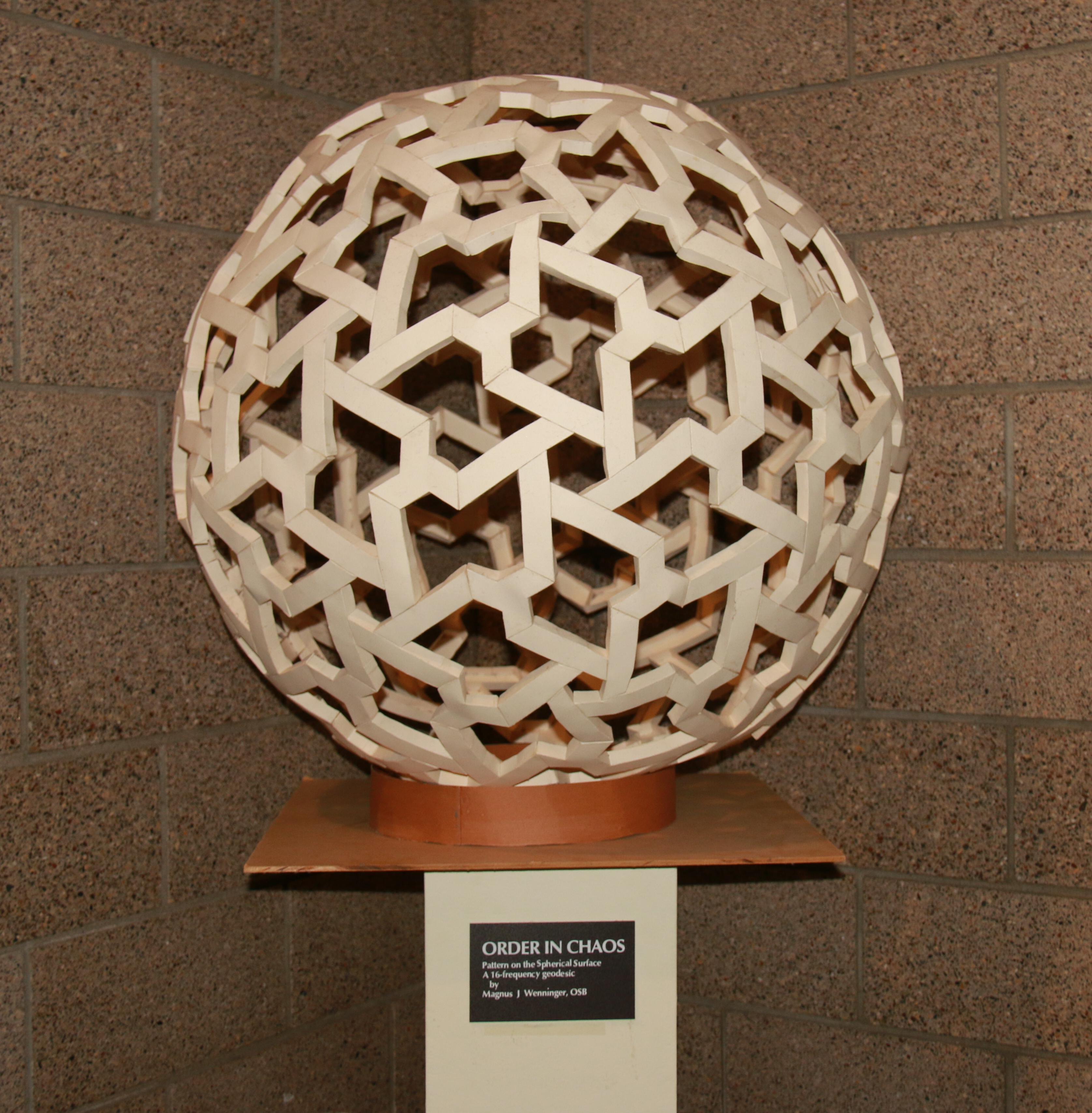 An artistic mode by Magnus Wenninger, including a subset of triangles of a {3,5+}_16,0, displayed at College of Saint Benedict and Saint John's University